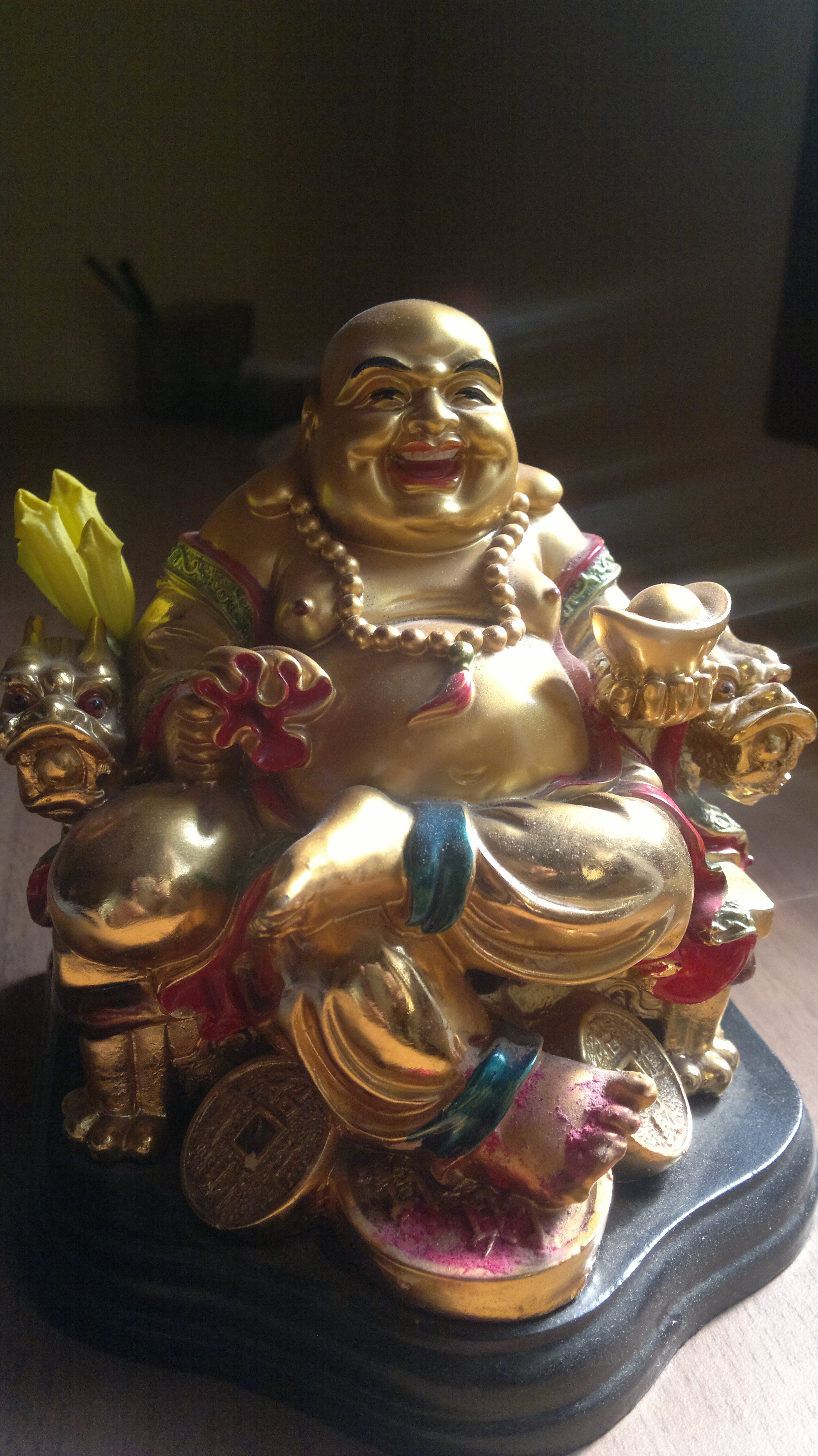 indian budai doll